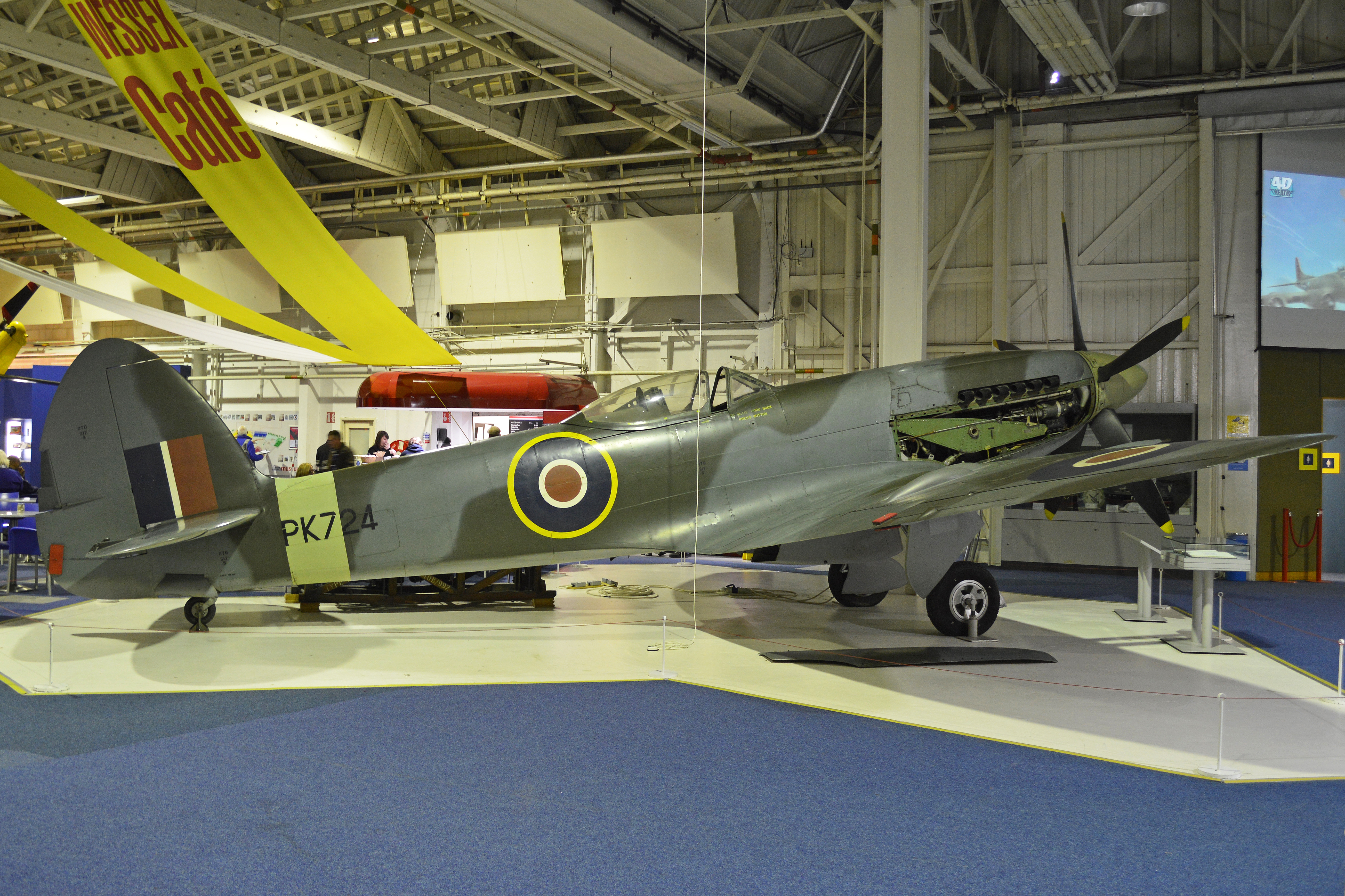 First flew in February 1946. This airframe only has seven hours flying time, and was never issued to an operational unit. Between 1961 and 1970 it was on display at RAF Gaydon, except for a short period at RAF Henlow in connection with the Battle of Britain film. In 1971 it went on permanent display in the Historic Main Hangars at the RAF Museum, Hendon, London, UK. 22-3-2015